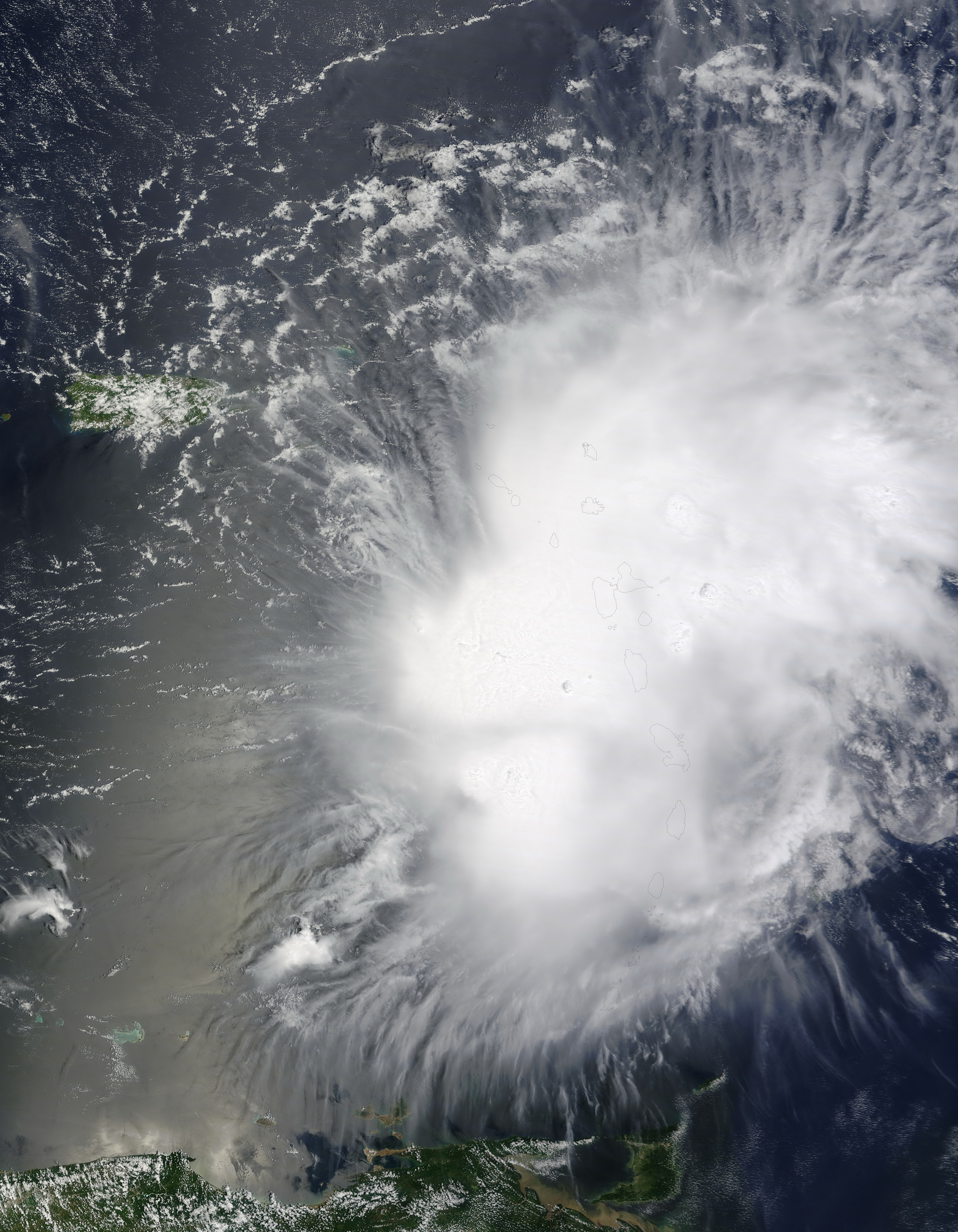 Tropical Storm Erika.